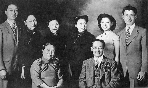 Buwei Yang Chao (née Buwei Yang; Chinese Traditional: 楊步偉, Simplified: 杨步伟, Pinyin: Yáng Bùwěi) (1889–1981) was an American Chinese physician and writer of recipes and was married to linguist Yuen Ren Chao.